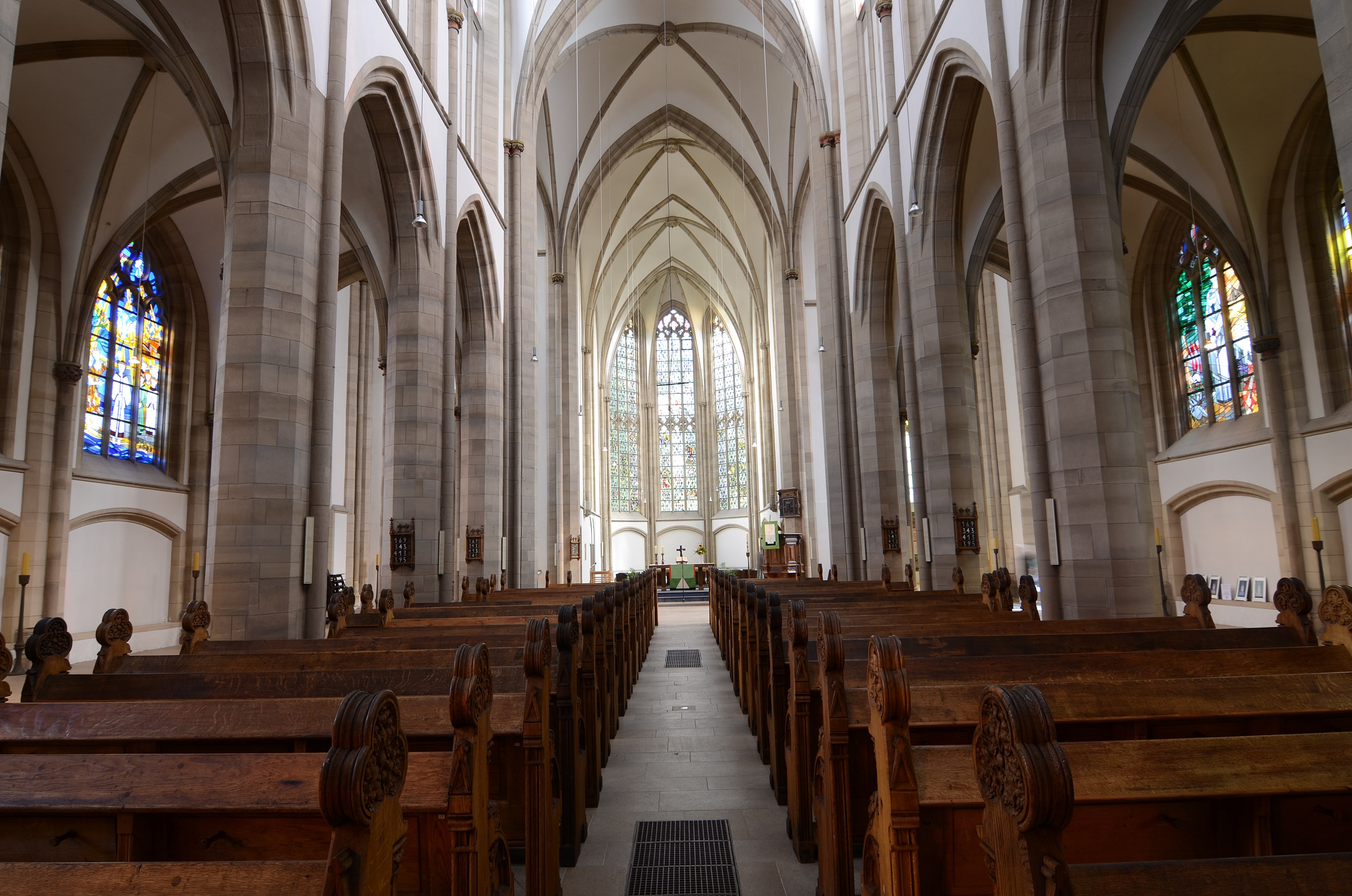 Duisburg (North Rhine-Westphalia, Germany) – borough Mitte, district Altstadt – Protestant Salvator Church – interior – view through the nave to the choir This image shows a heritage building in Germany, located in the North Rhine-Westphalian city Duisburg (no. 63). This photograph was taken with a Nikon D7000